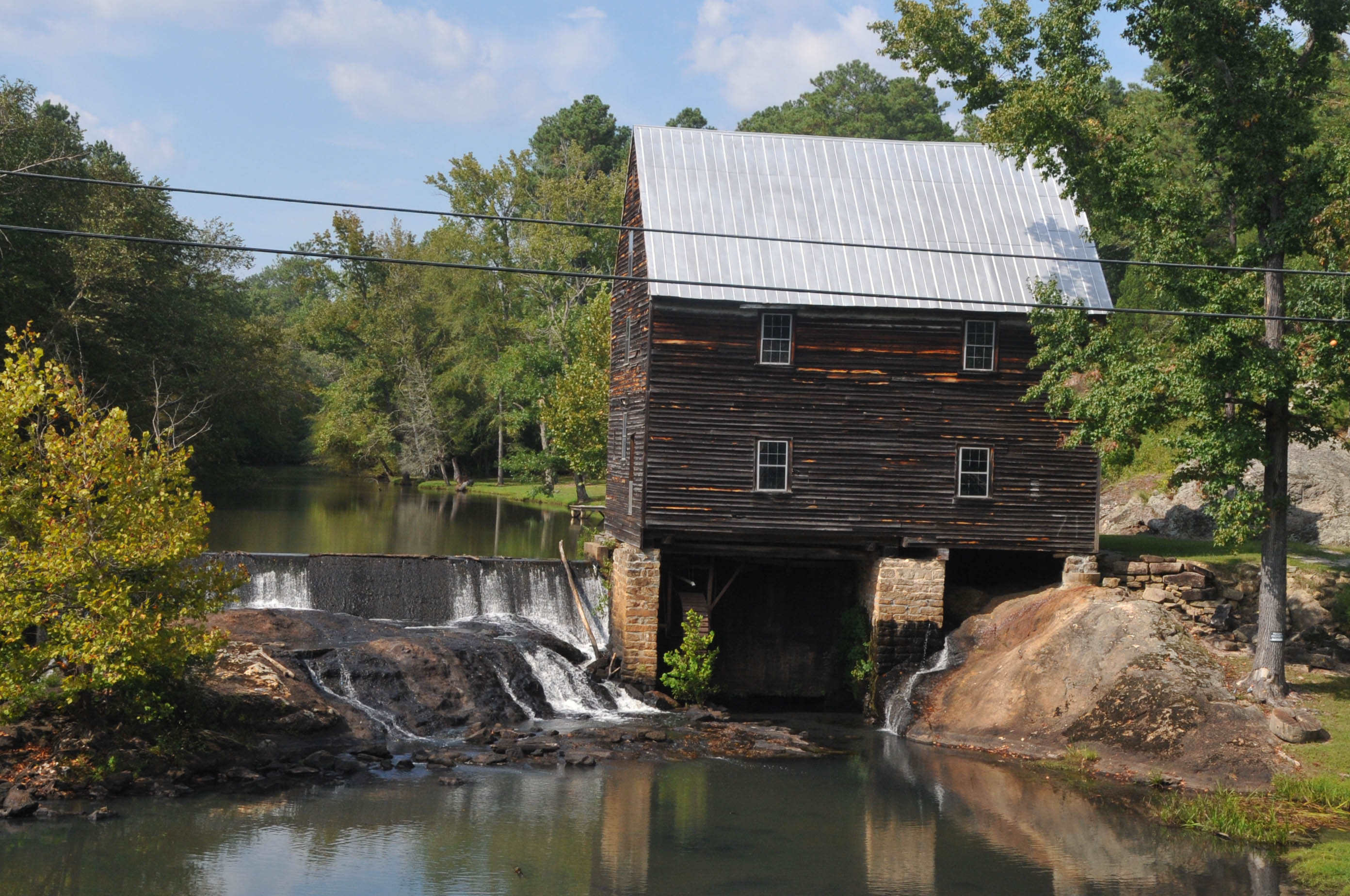 MILL STARTED IN 1769 WHEN EPHRAIM ESTRIDGE STARTED GRINDING CORN AND WHEAT.THE MILL HAS PASSED THROUGH VARIOUS OWNERS AND DETERIORATED UNTIL ACQUIRED BILL AND MARGARET HOLMES IN 1972 AND HAVE RESTORED IT TO WORKING ORDER